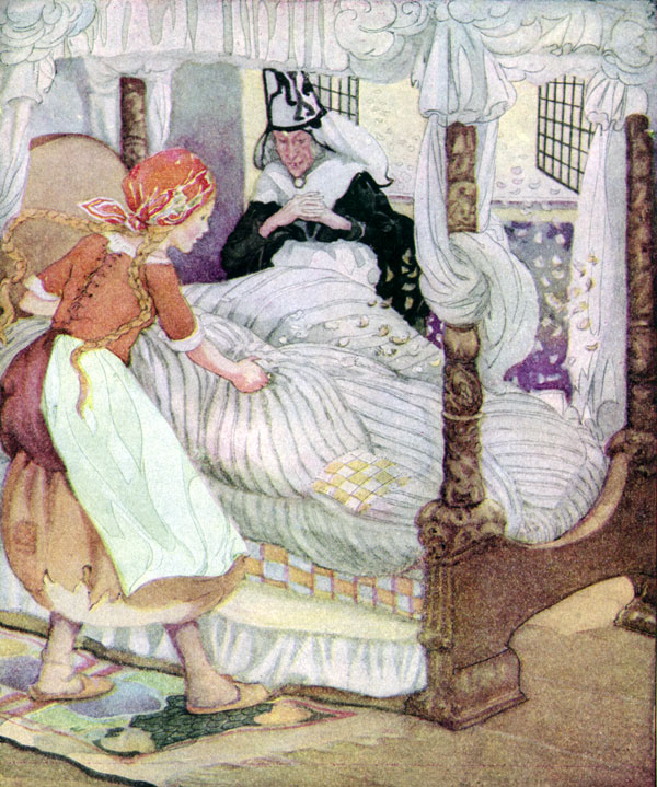 Old, Old Fairy Tales: "Madame Holl" by Anne Anderson. Always shake my featherbed out the window...